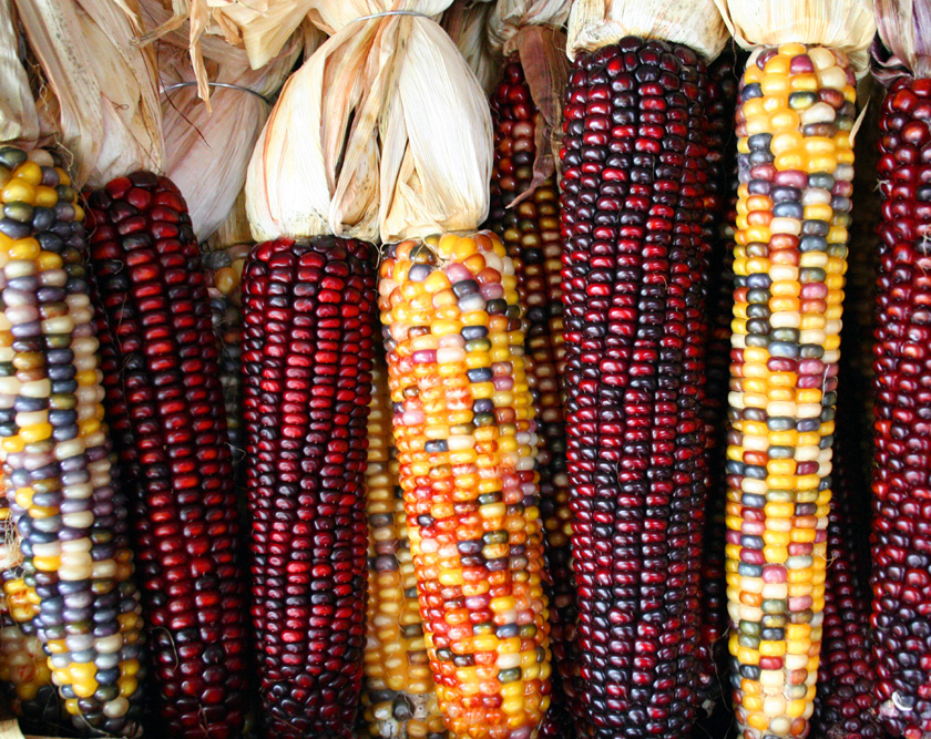 Cobs of corn